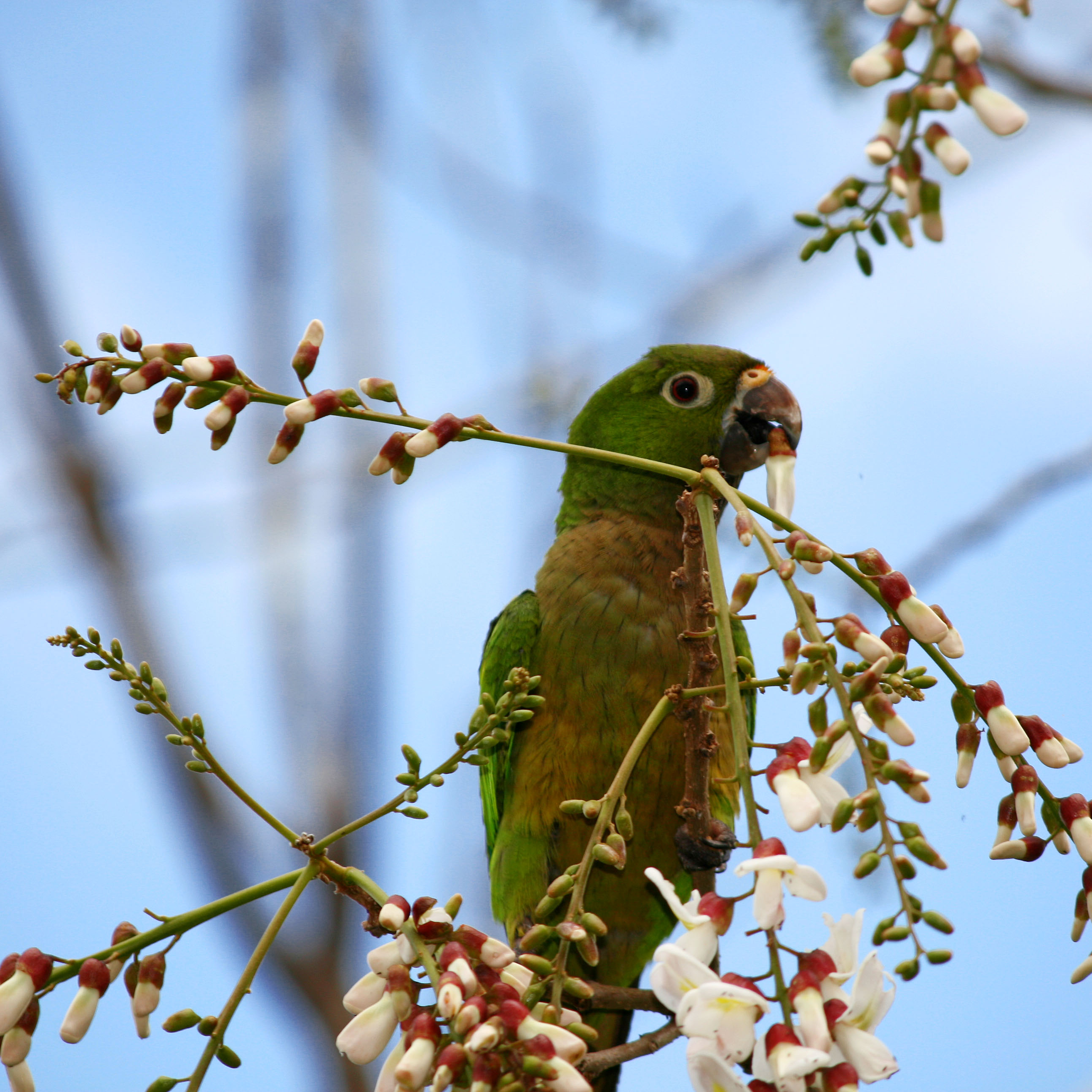 An Aztec Parakeet in Tikal, Guatemala.